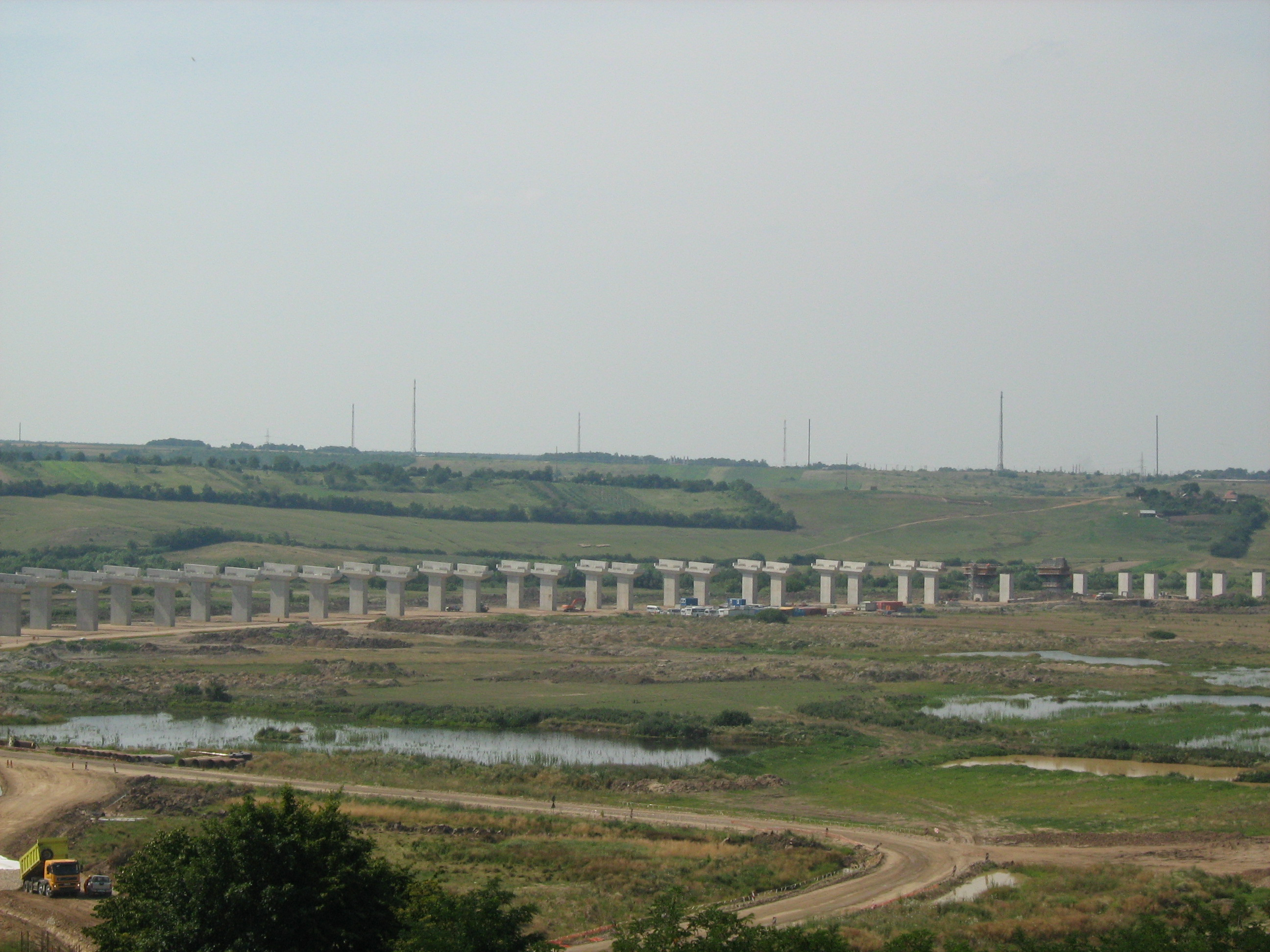 Suplacu de Barcau Viaduct-general view